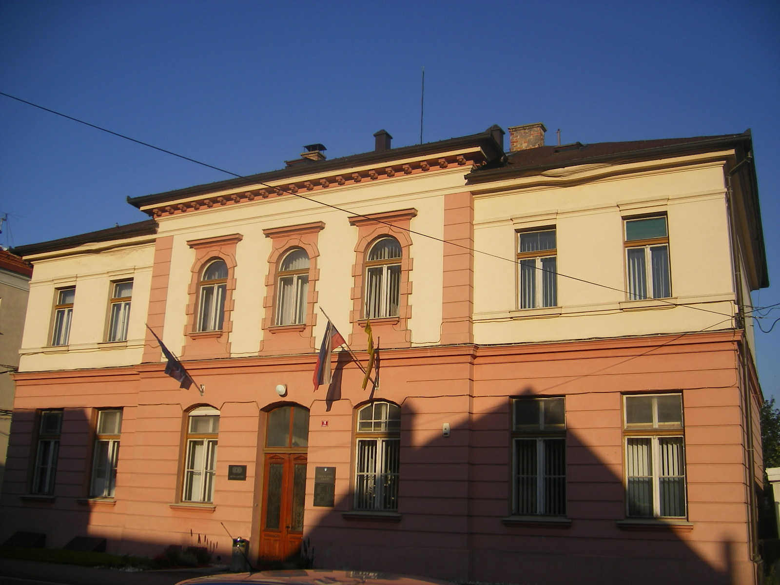 Logatec - Town hall